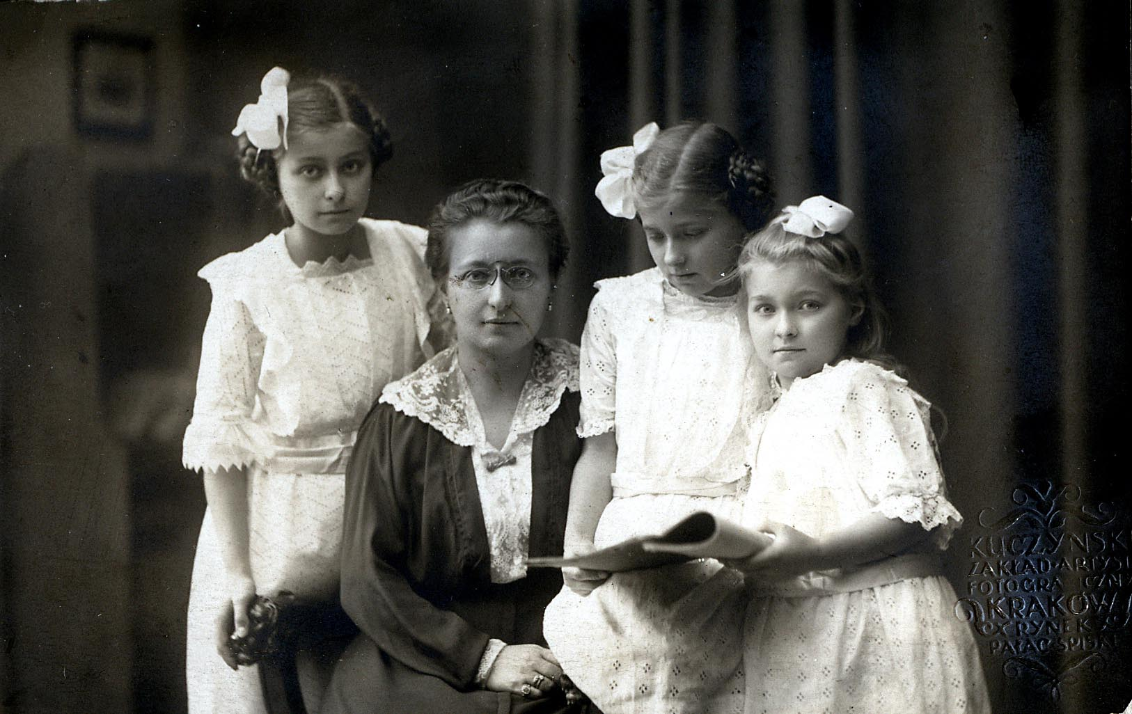 Helena Latinik née Stiasny-Strzelbicka (1876–1956), second on the left, with her daughers: Anna (1902–1969, first on the left), Irena (1904–1975, second on the right) and Antonina (1906–1989).